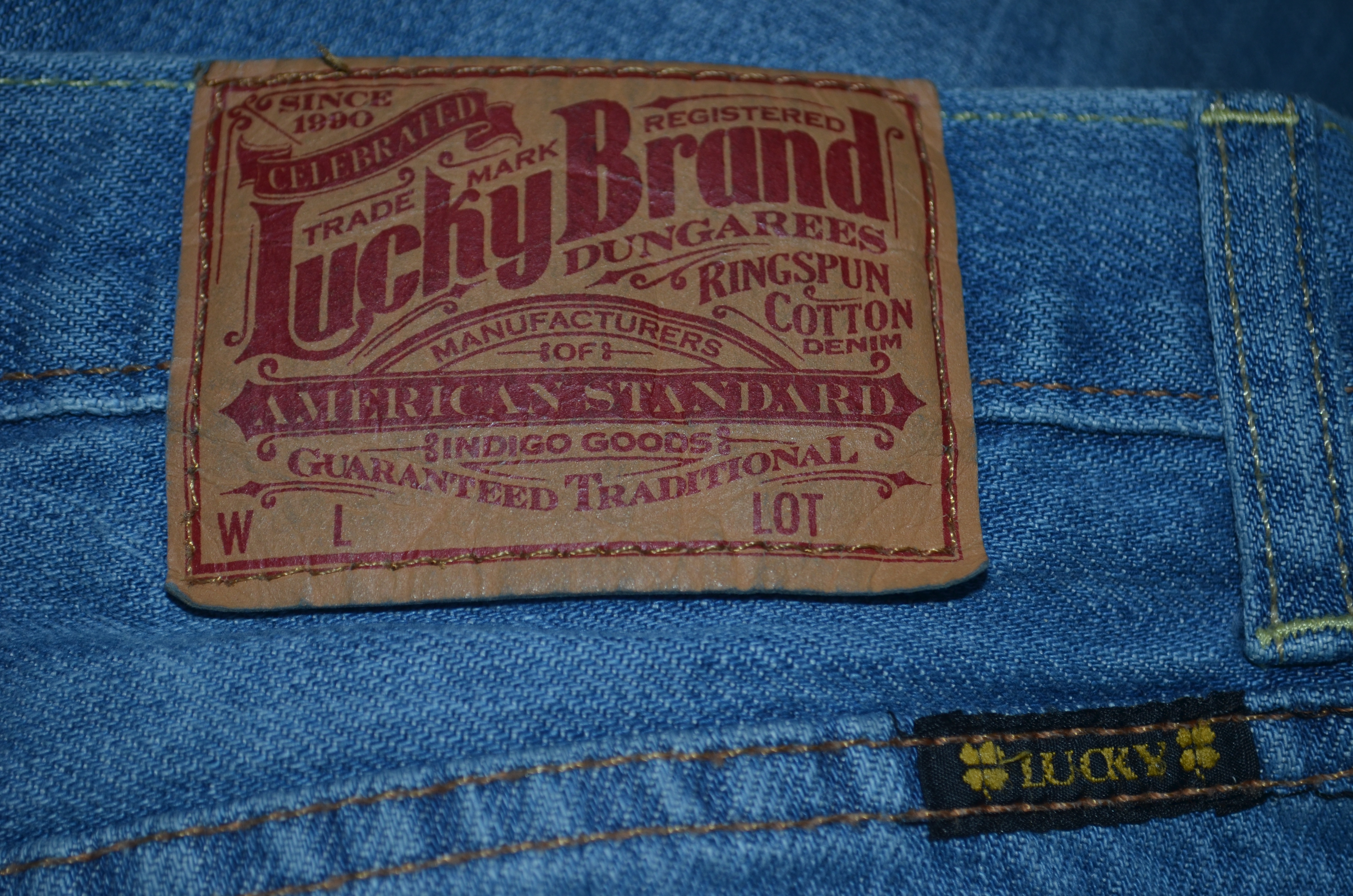 Lucky Brand Jeans Back Leather Label